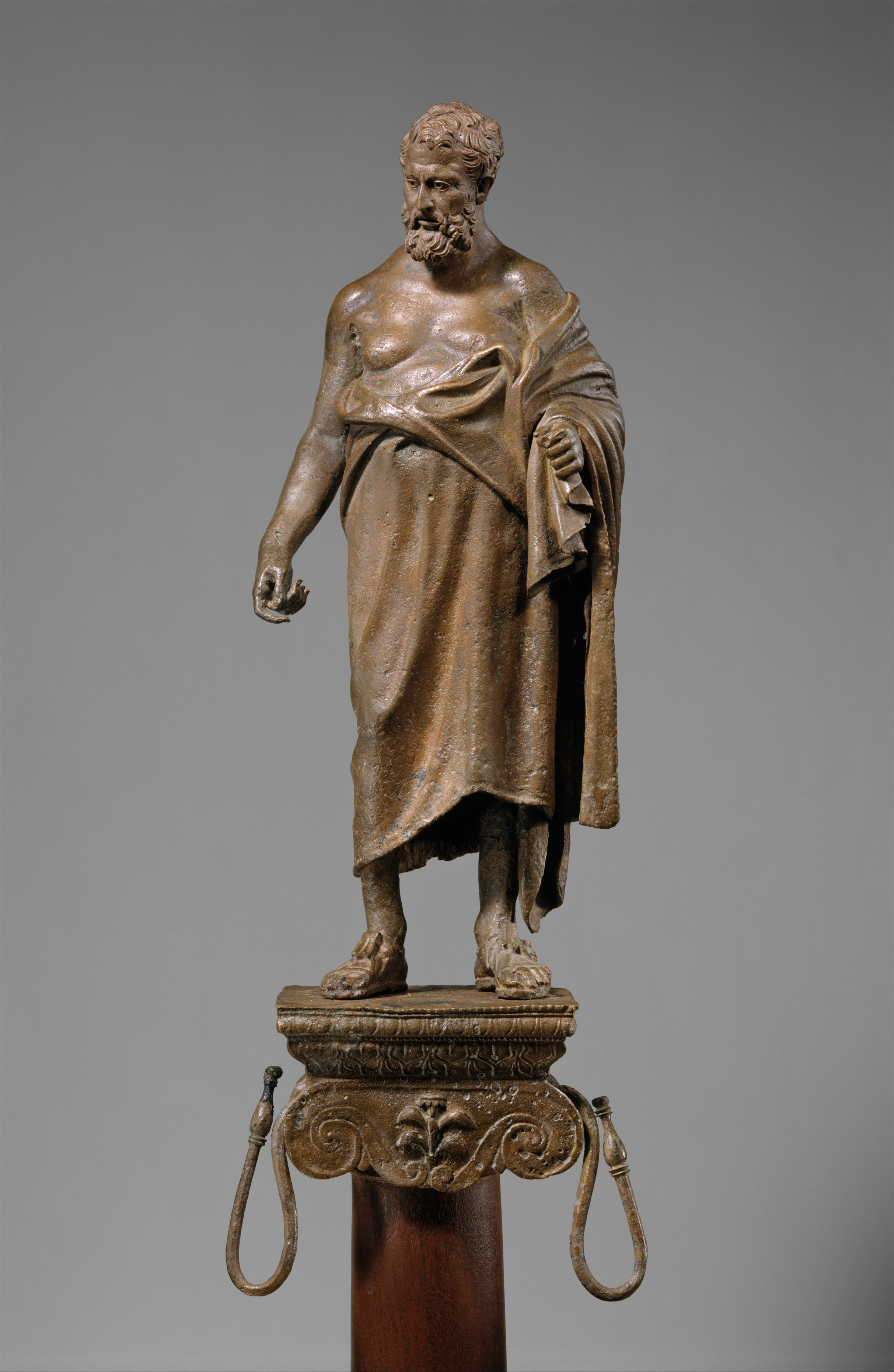 Roman; Statuette of philosopher on lamp stand, Hermarchos ?; Bronzes